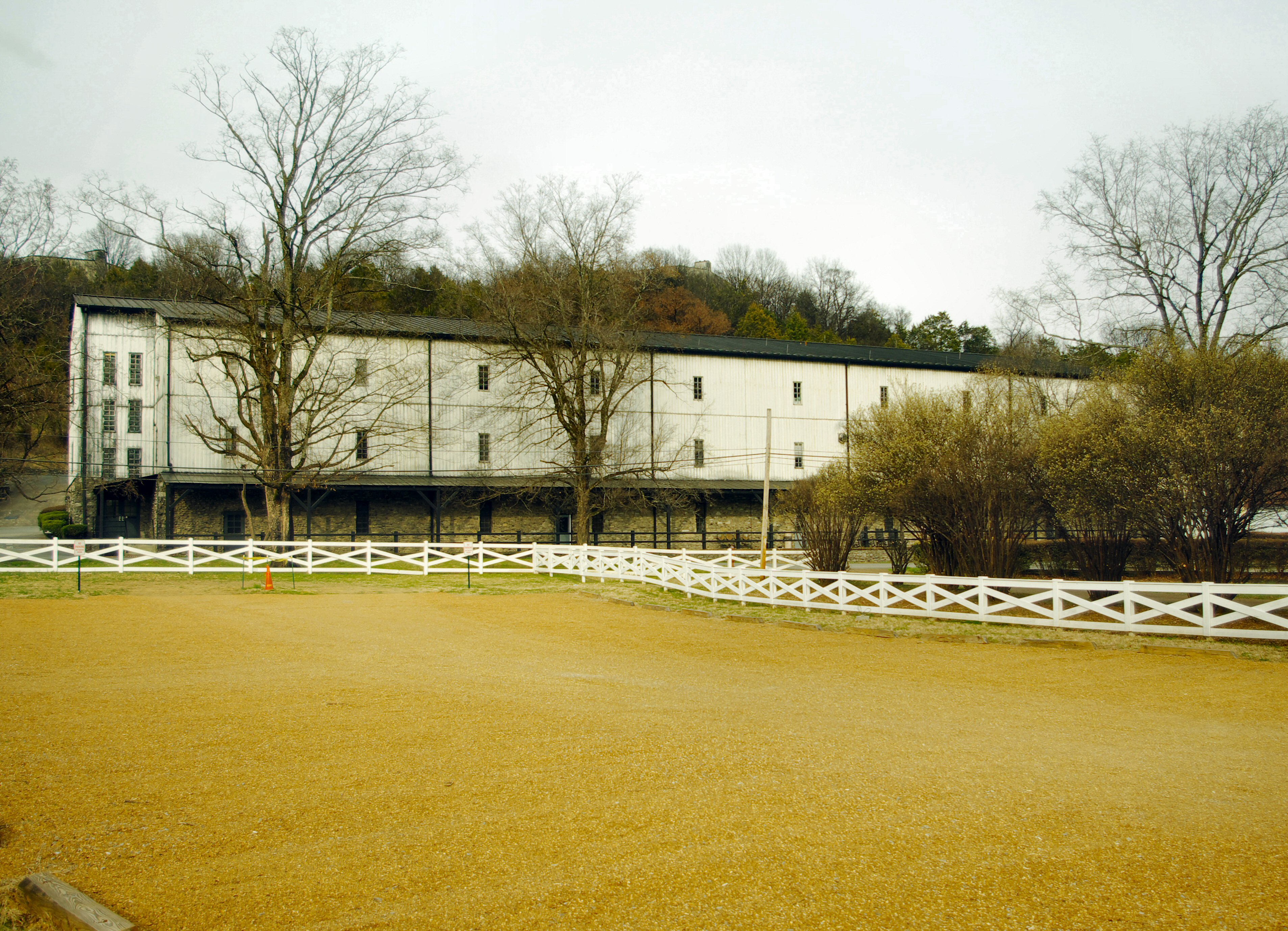 Barrel house at the Jack Daniel's Distillery in Lynchburg, Tennessee, United States